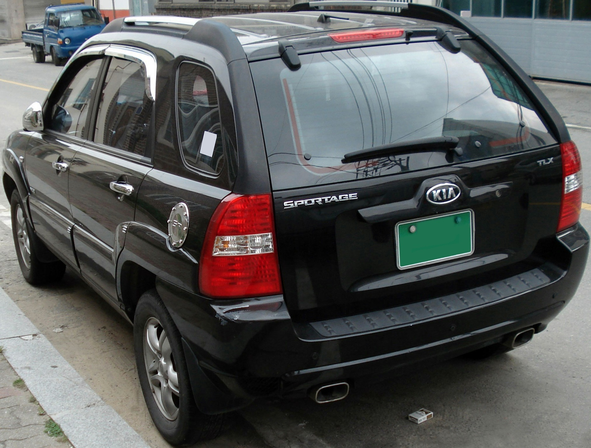 Kia Sportage